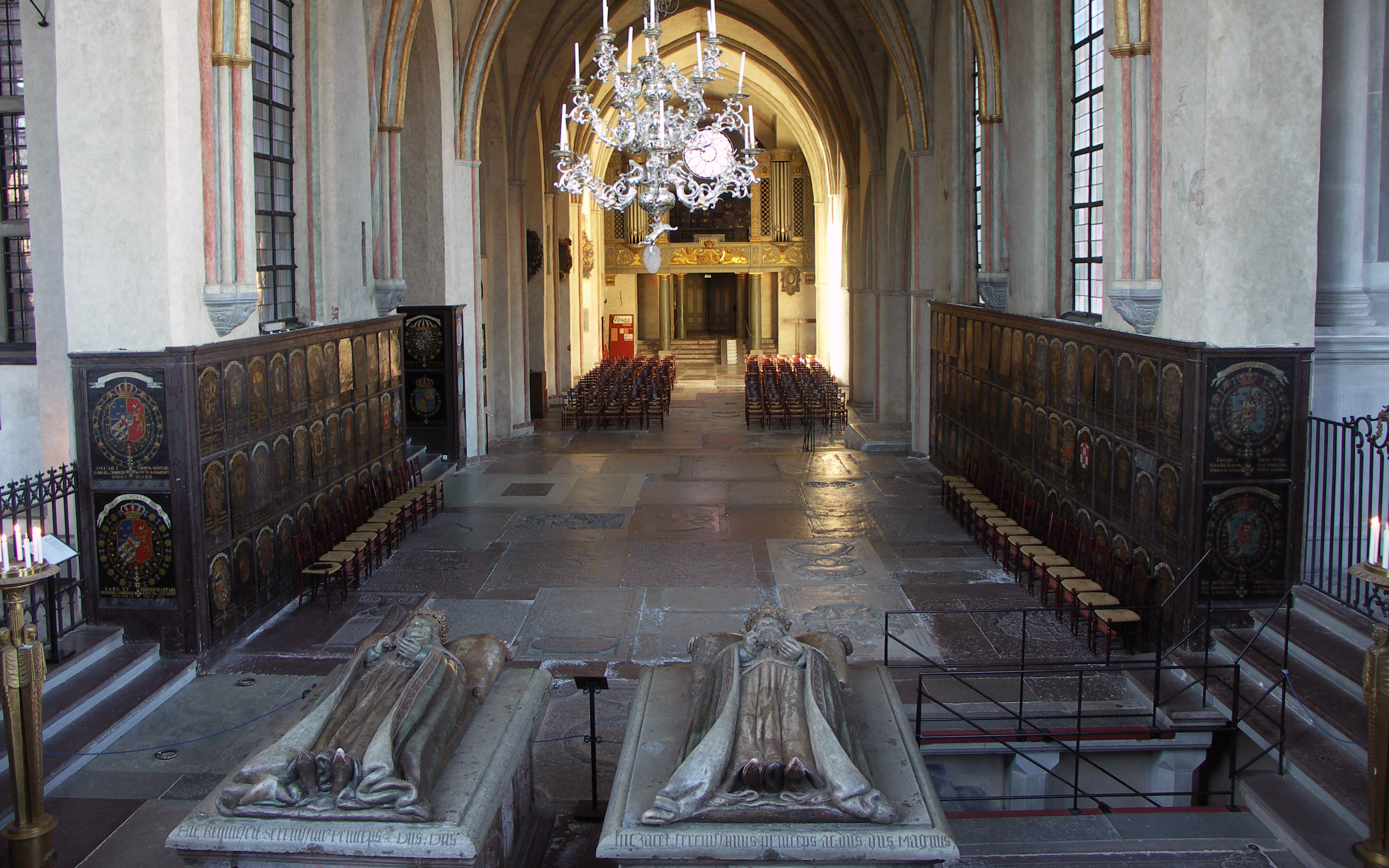 Riddarholmen church, Stockholm, Sweden: view through the main nave from the chancel. To the left the tomb of king Carl II (Karl Knutsson Bonde) and to the right the tomb of king Magnus III (Magnus Ladulås).